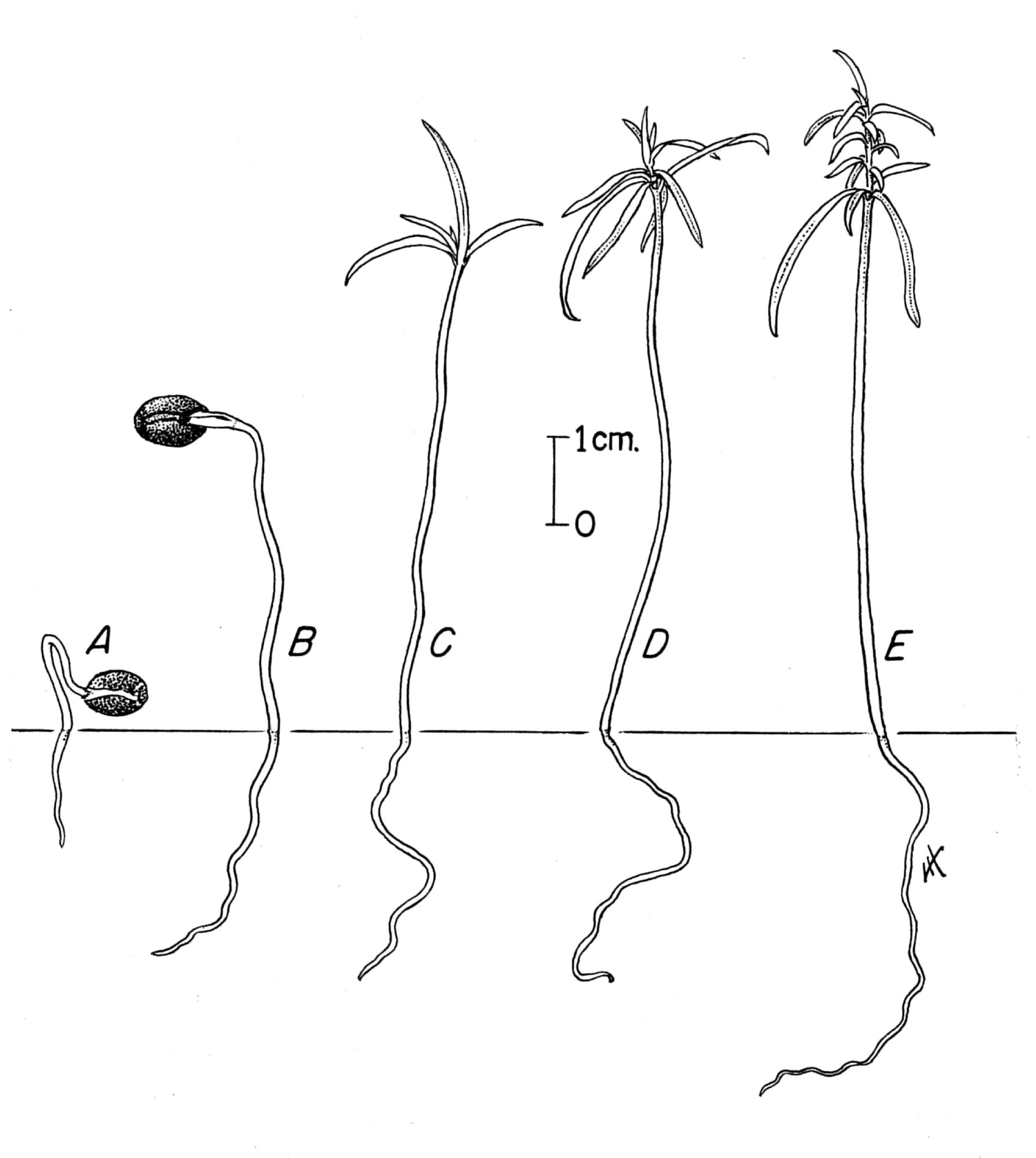 European Yew